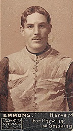 Photograph of Robert Emmons, captain of the 1894 Harvard football team